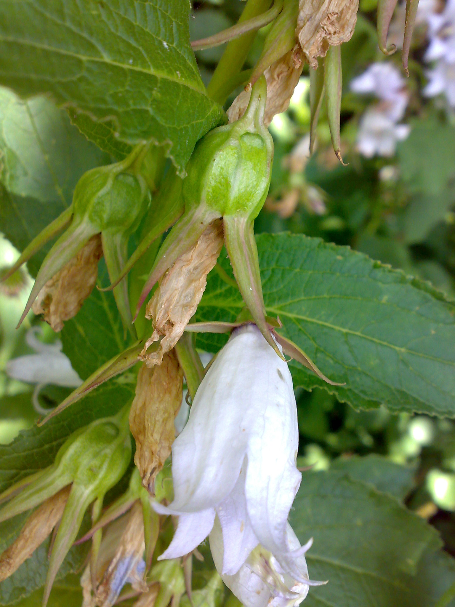 Campanula latifolia Norway Oslo